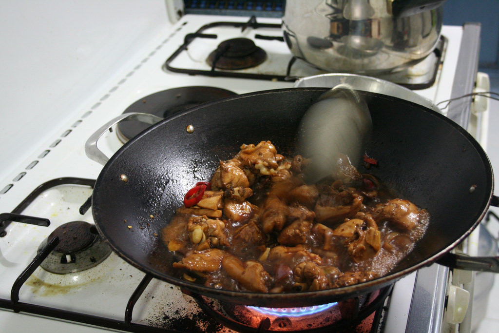 Soy sauce chicken? prepared by my auntie